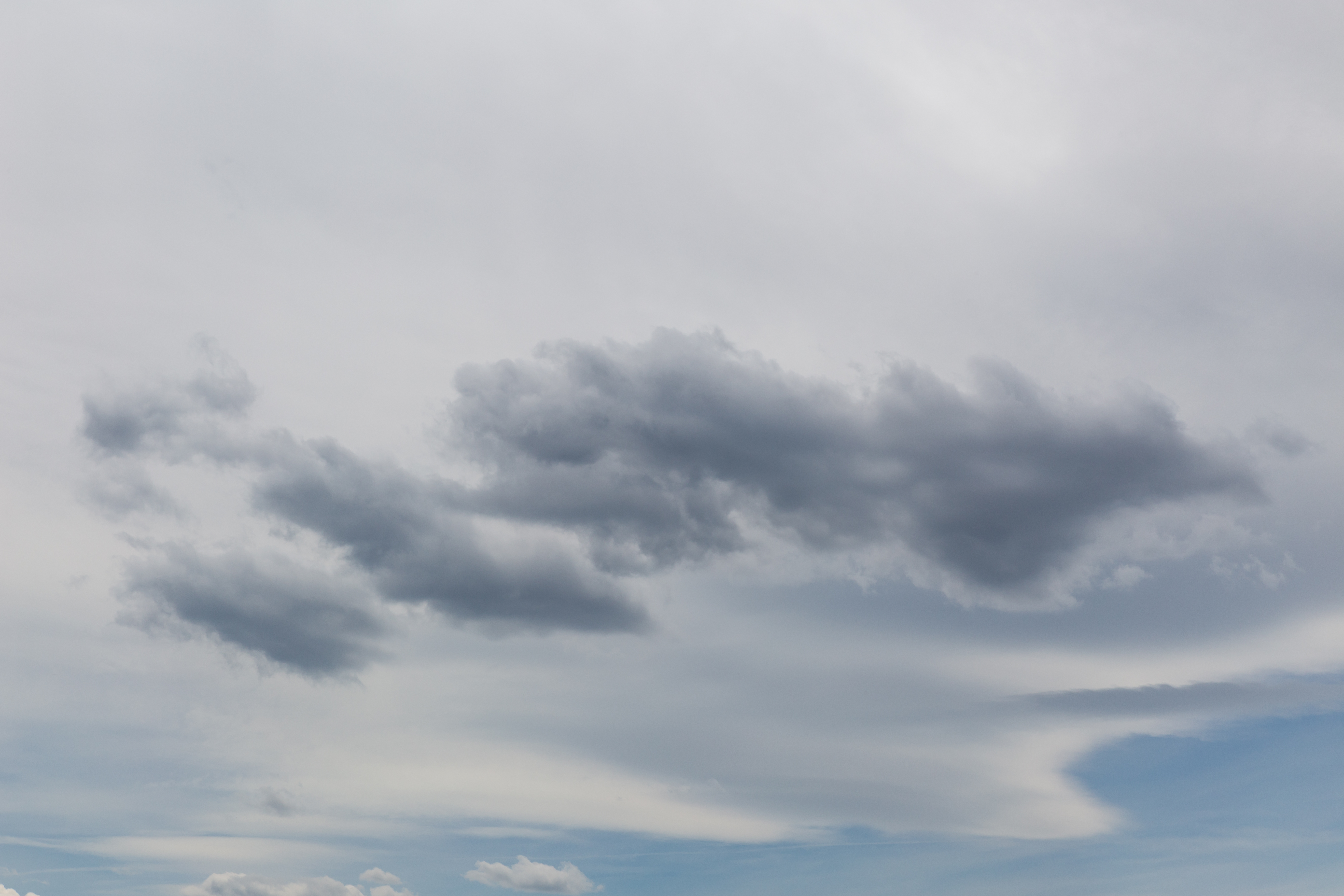 Cumulus humilis under an extended layer of Altostratus in Saint-Remèze, France.